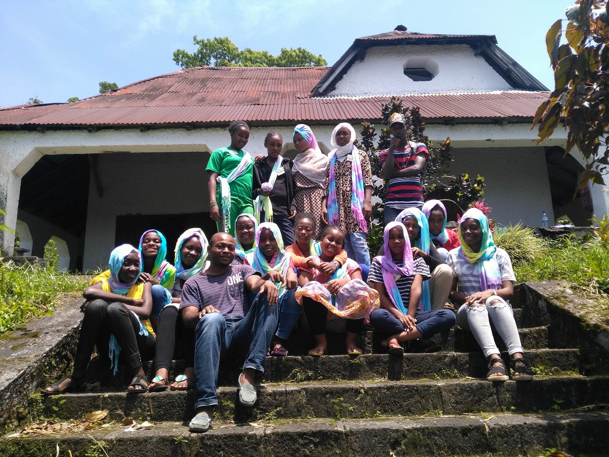 This is an image with the theme "Play" from: Comoros